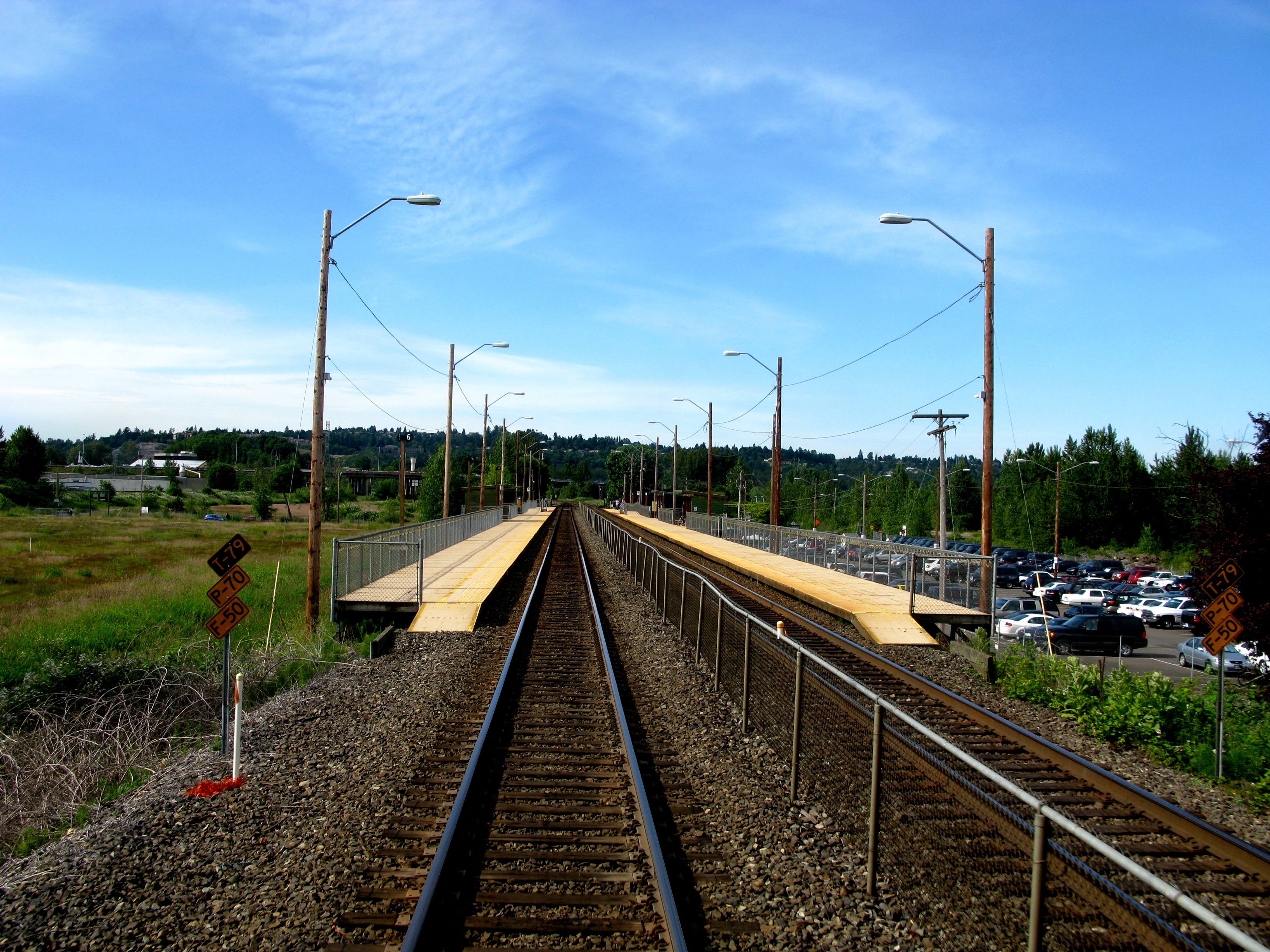 Taken from the end cab of a Sounder train.